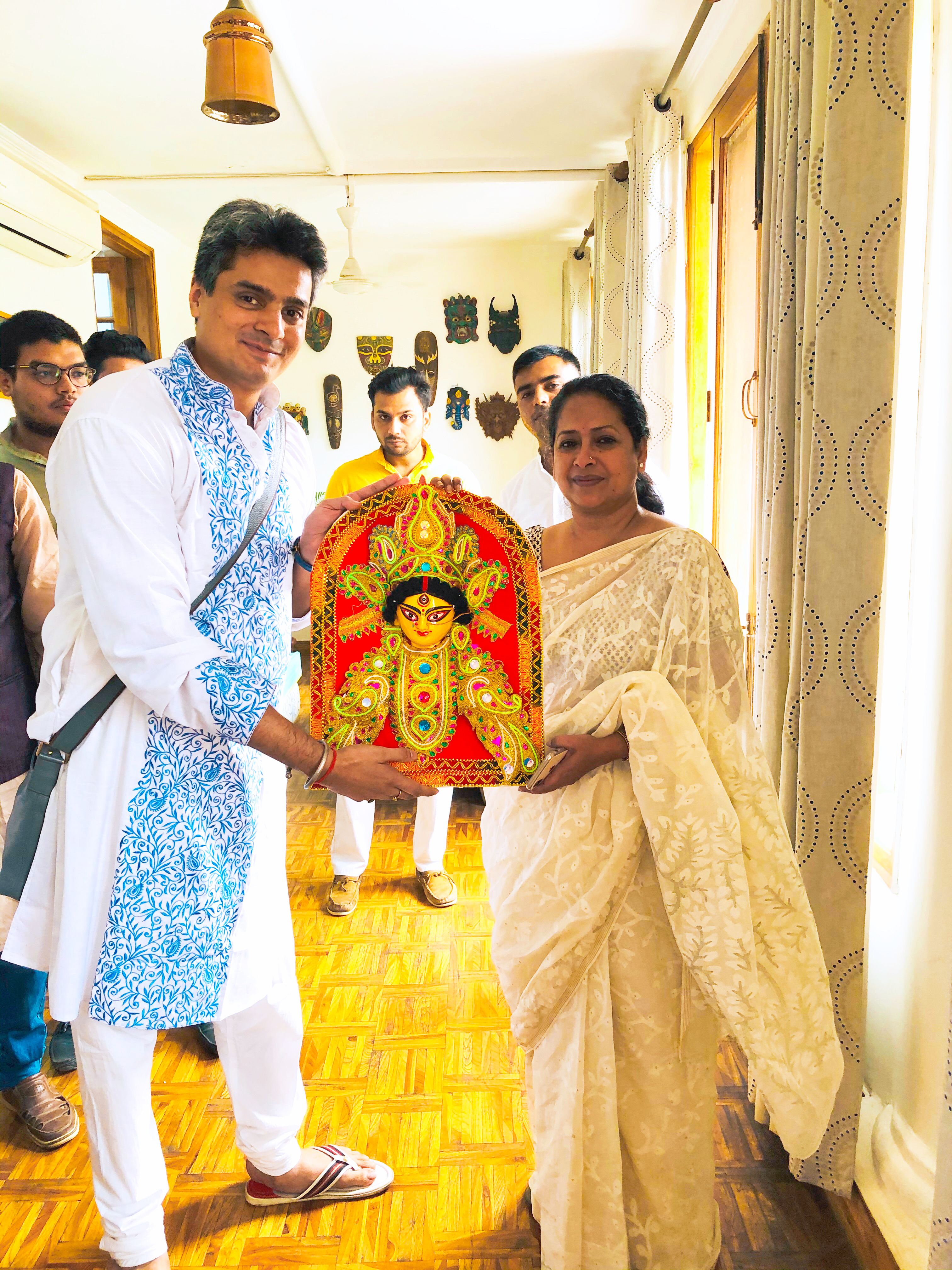 Receiving a plaque from a party worker during the festive season.